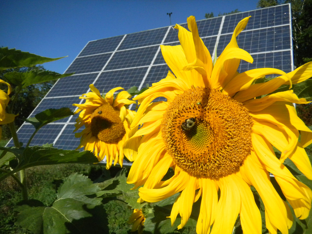 Sunflowers